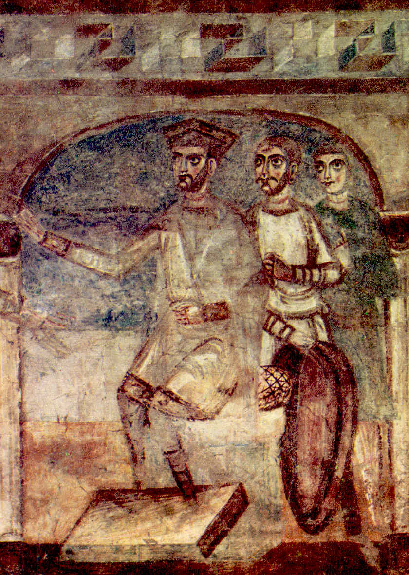 Detail of a Romanesque fesco depicting St Christopher before a Roman emperor, from the south wall of the nave of the Basilica of San Vincenzo, Galliano, near Cantù. Italy (11th century AD)